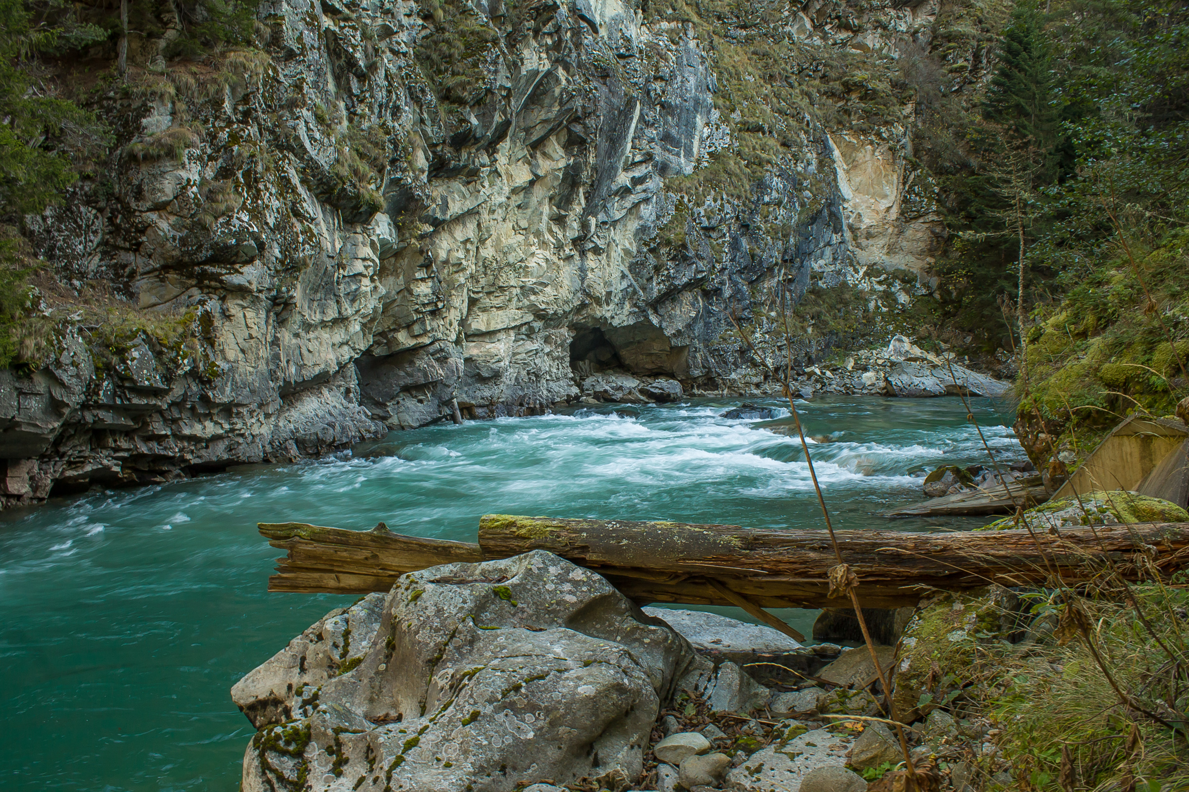 река Лаба